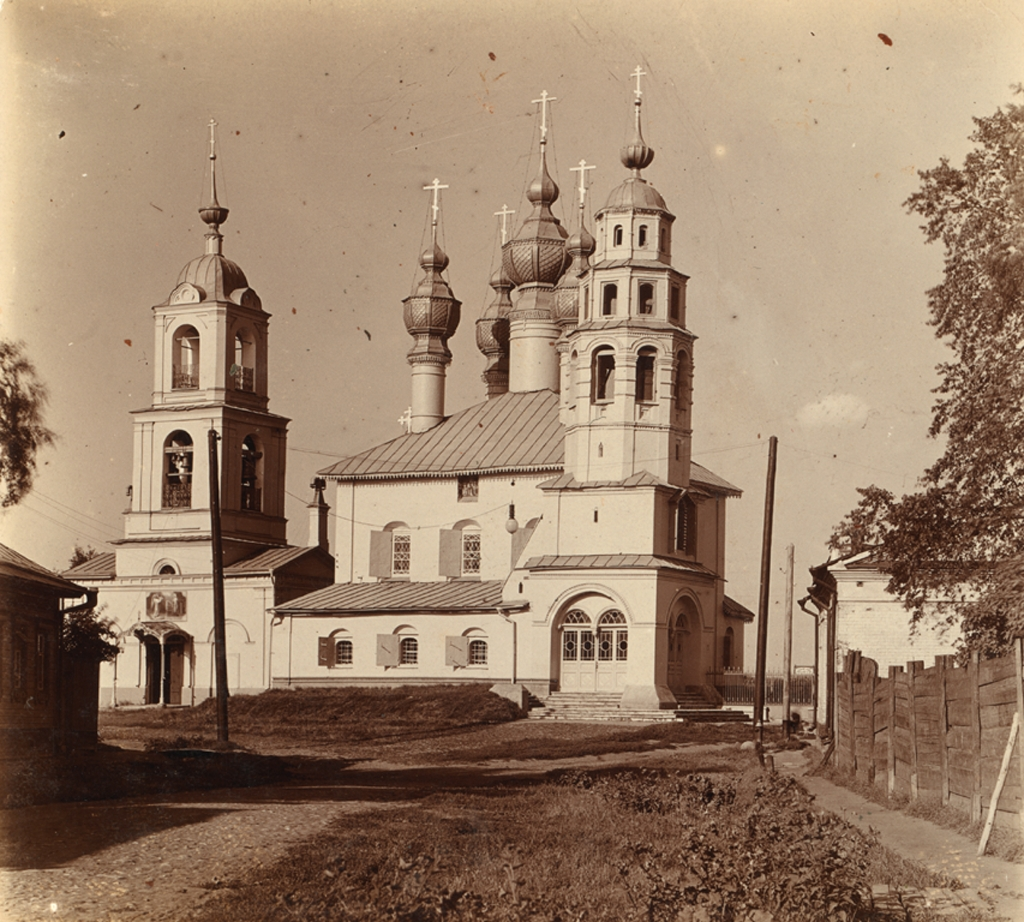 The Church of the Annunciation. Yaroslavl, 1910. Photographer S. M. Prokudin-Gorskii.